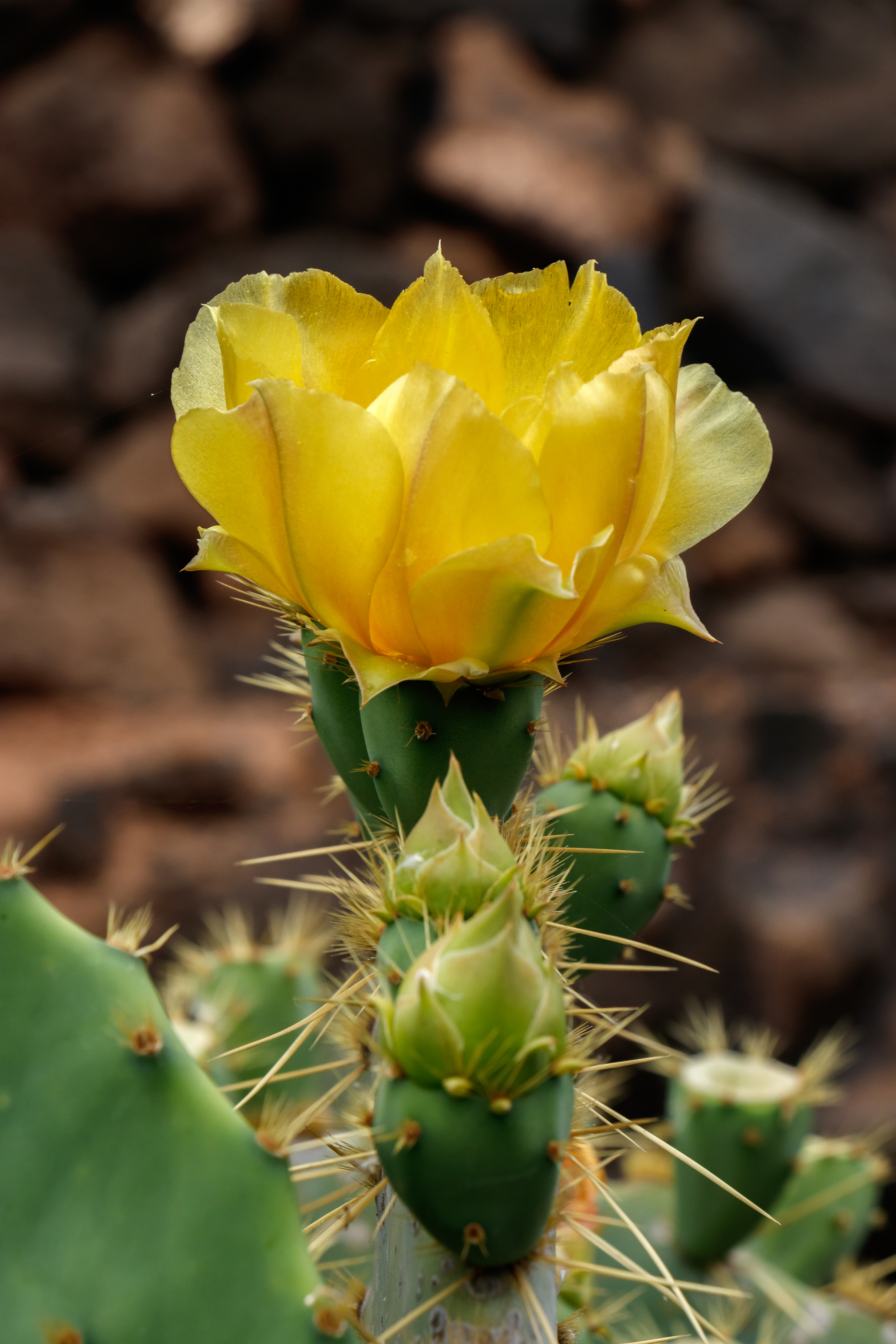 Opuntia hyptiacantha F.A.C.Weber; Flower; Jardin de Cactus, Guatiza, Lanzarote, Canary Islands, Spain.